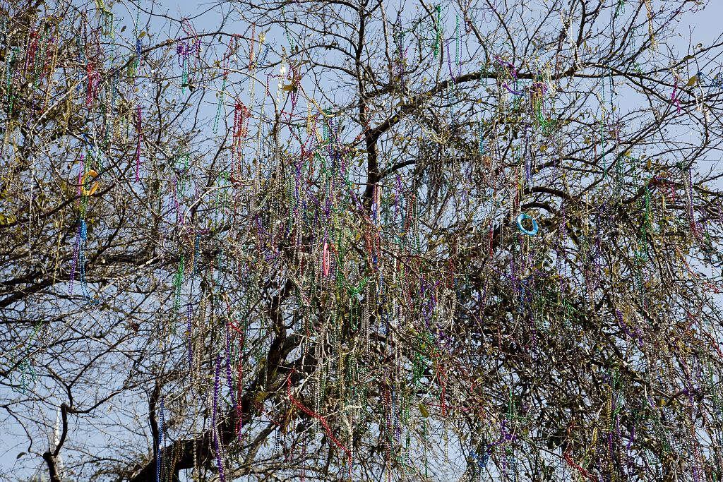 Mardi Gras beads hang in a tree for weeks after Mardi Gras in Mobile, Alabama.